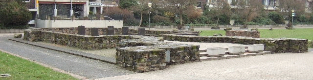 Renewed foundations of the Franko Dietkirche (church) in Bonn.